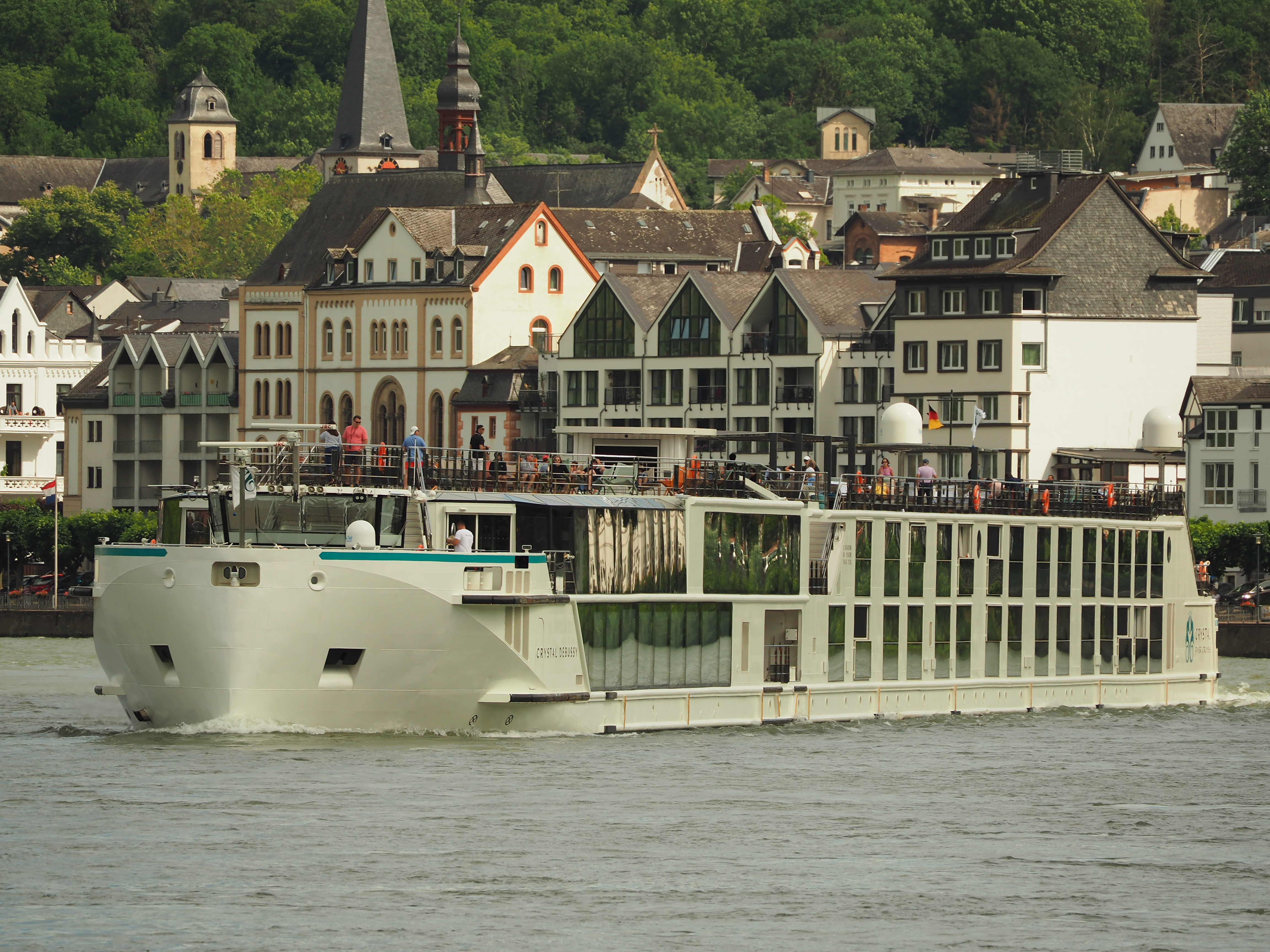 Photographed on the Rhine in Germany.